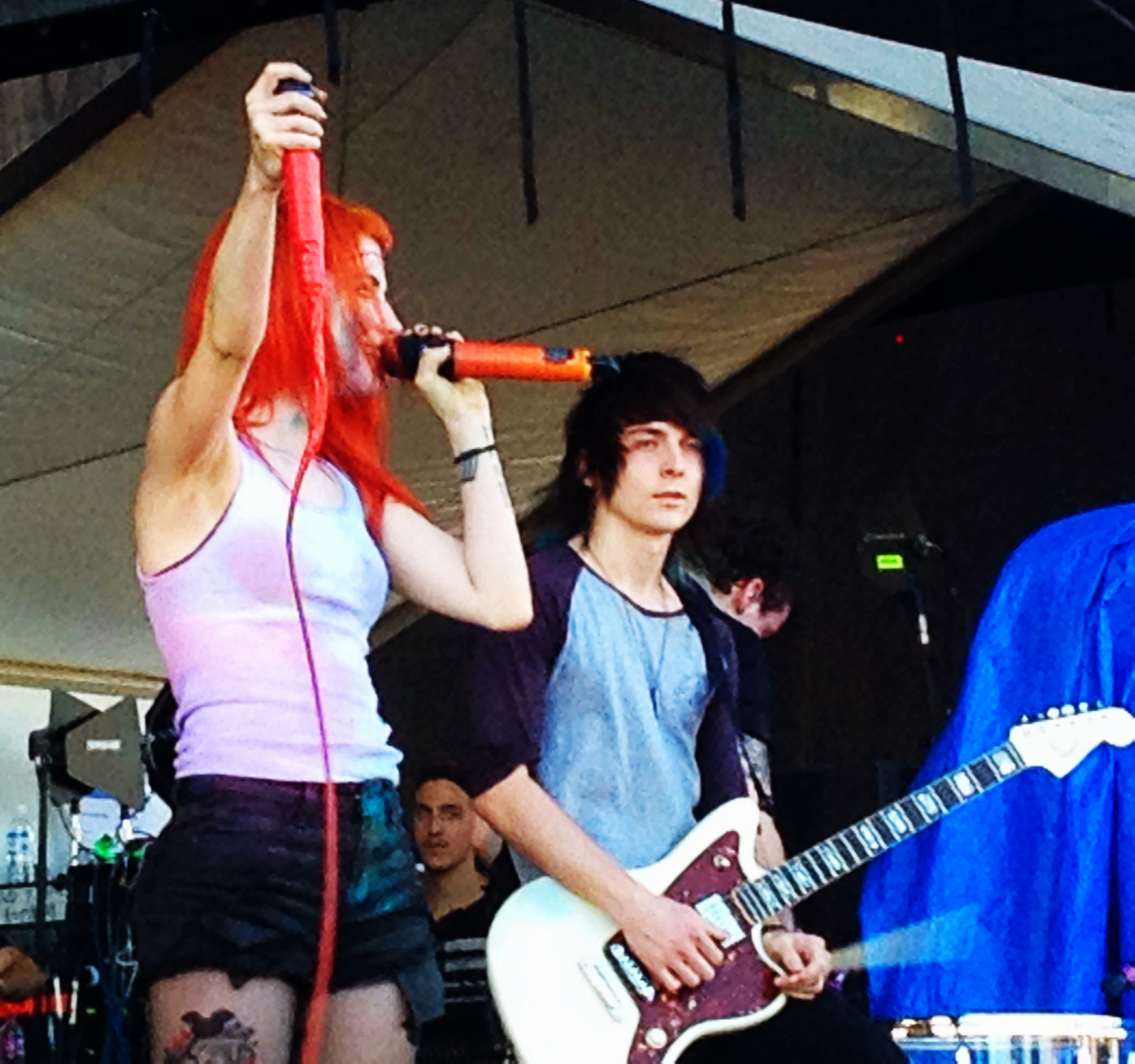 Zeke Mountain playing in Paramore at the 2013 Soundwave Festival